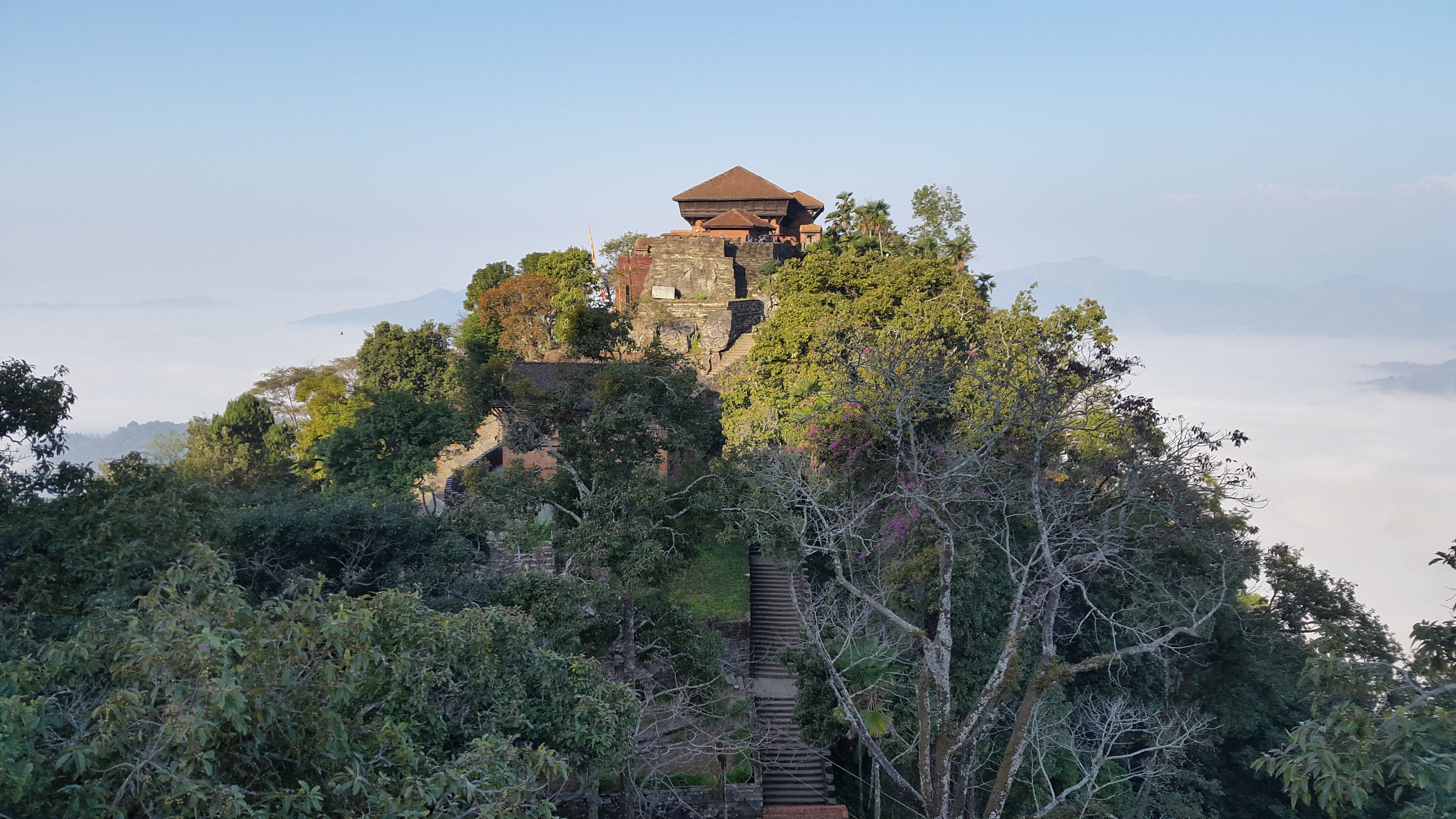 I took this photo few months before the Gorkha Earthquake happened.